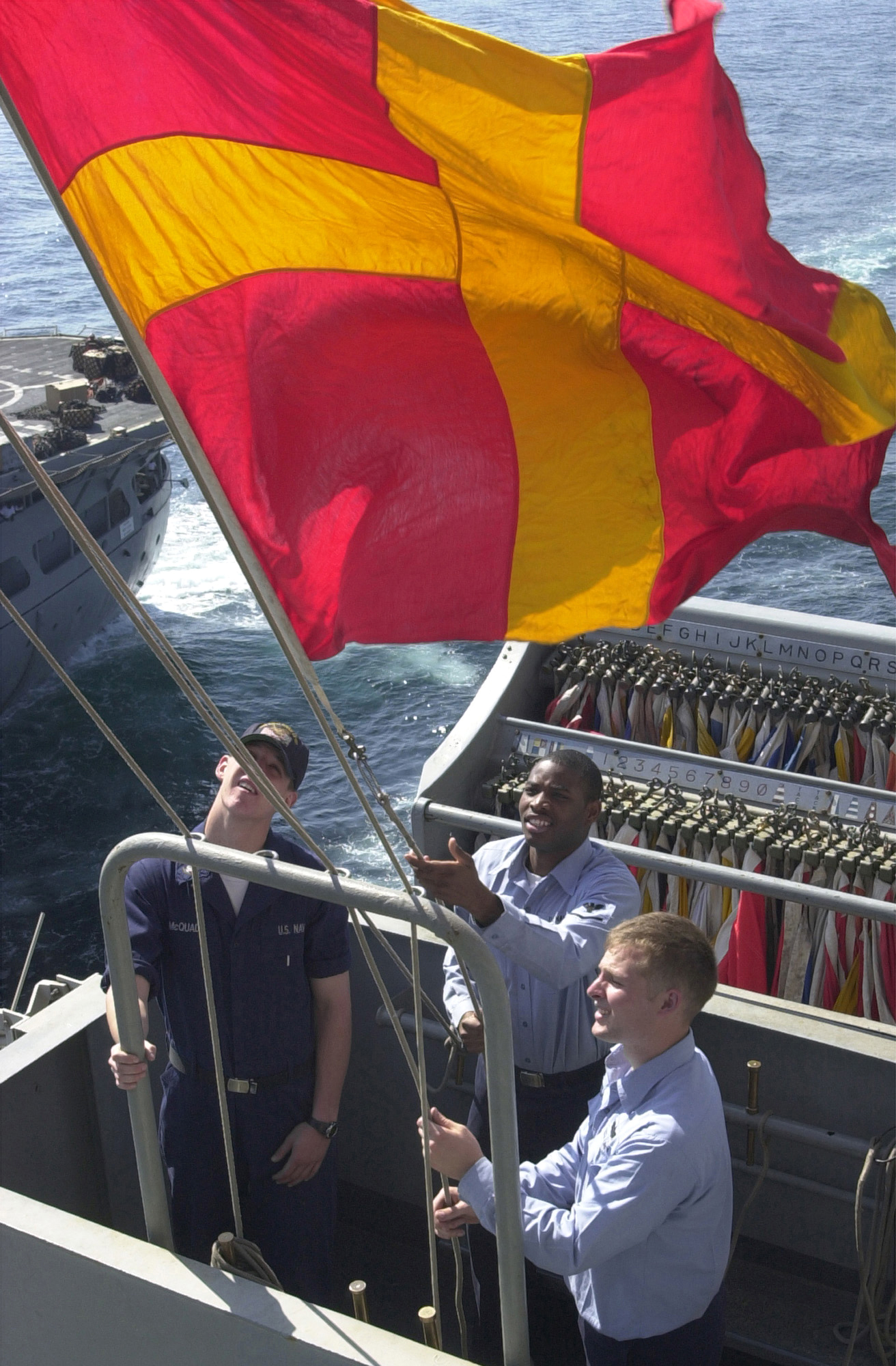 At sea aboard USS Kitty Hawk (Dec 1, 2001) -- During a replenishment at sea (RAS), sailors haul down the Romeo flag, signifying that the receiving ship has the first line from the supply ship in hand.